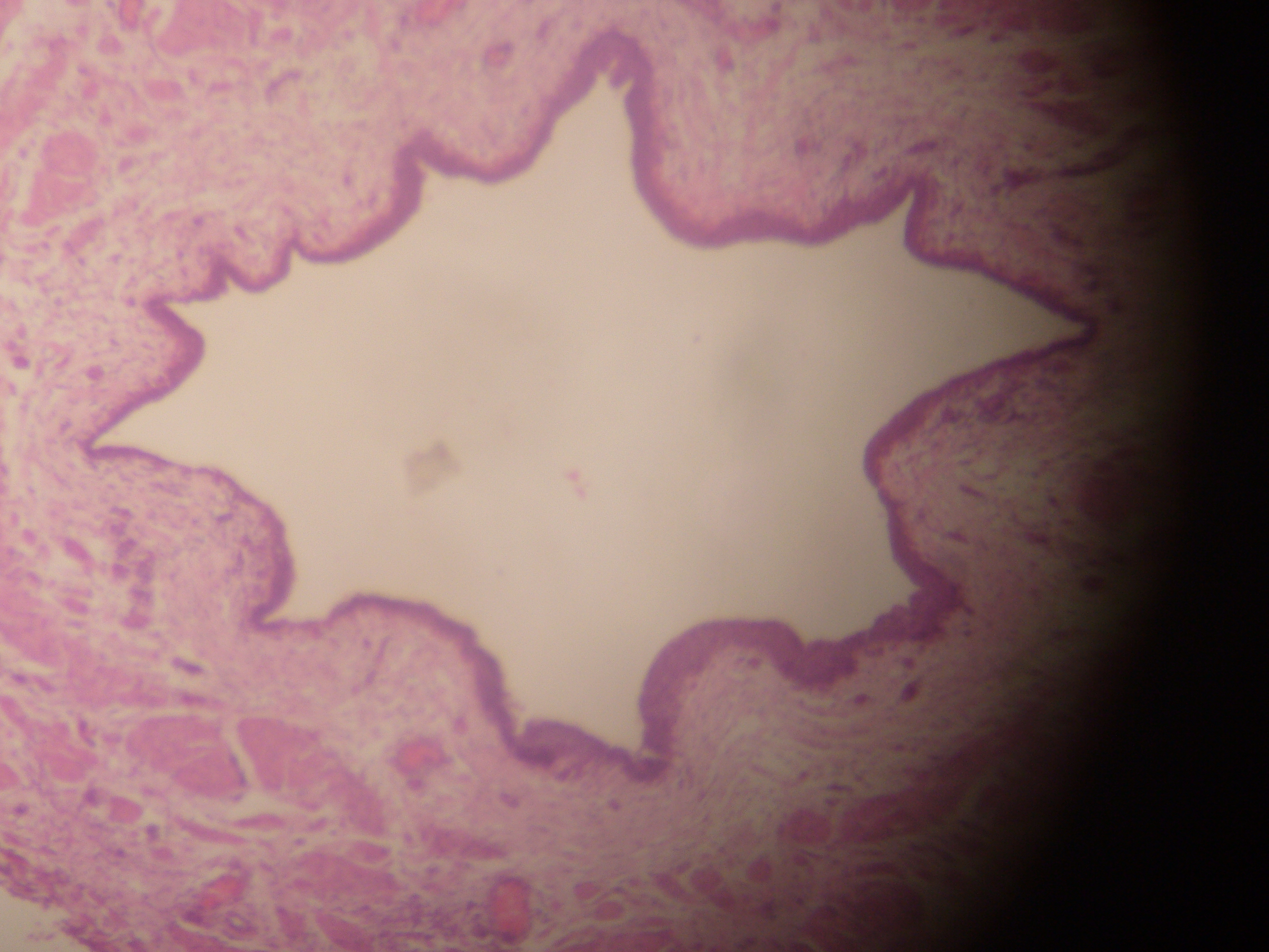 Author' own picture. Human Ureter. Digital camera shot through a microscope.